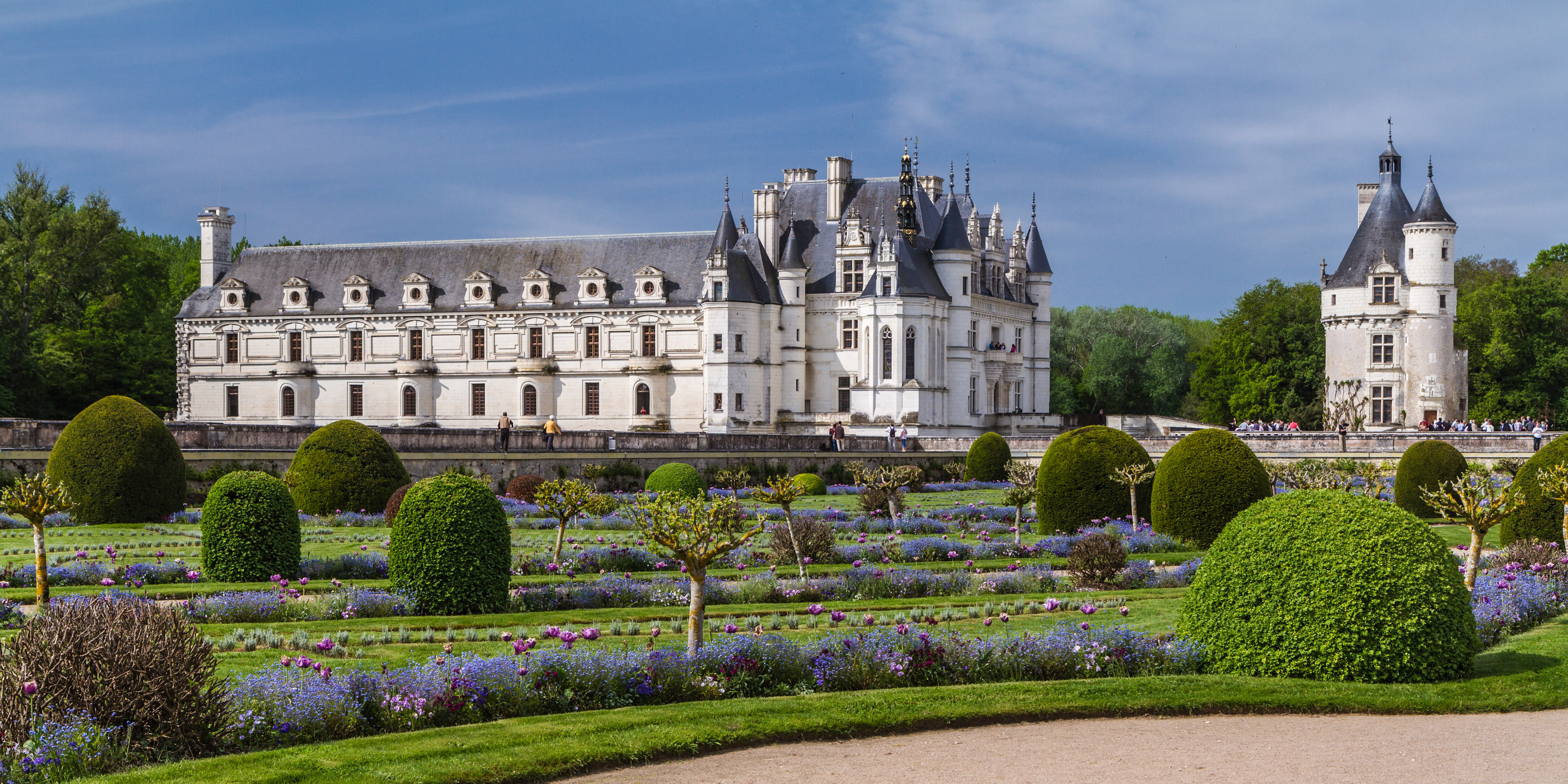 Chenonceau castle and its Diane de Poitiers garden.